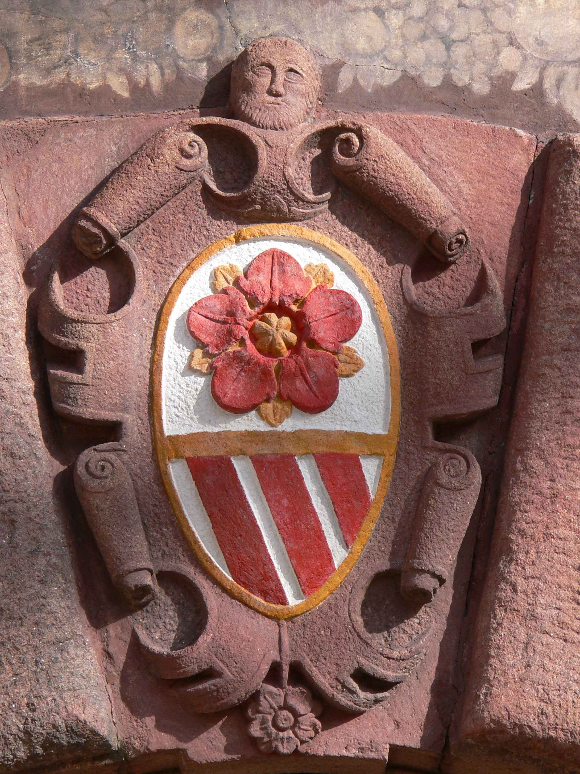 Třeboň castle. Gate to the inner courtyard: Coats of arms of the house of Rosenberg.